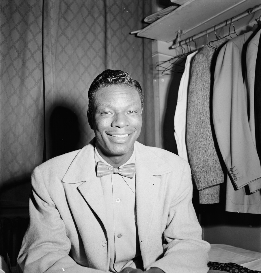 Nat King Cole, Paramount Theater, New York, N.Y., ca. November 1946 (Photograph by William P. Gottlieb)